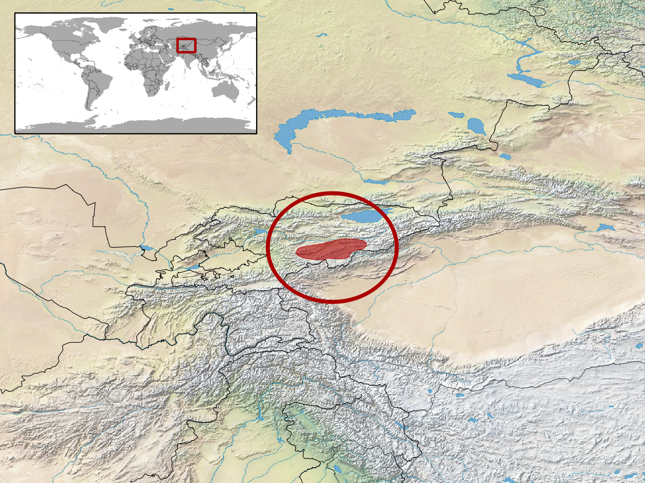 geographic distribution of Alsophylax tokobajevi (Native: Kyrgyzstan)